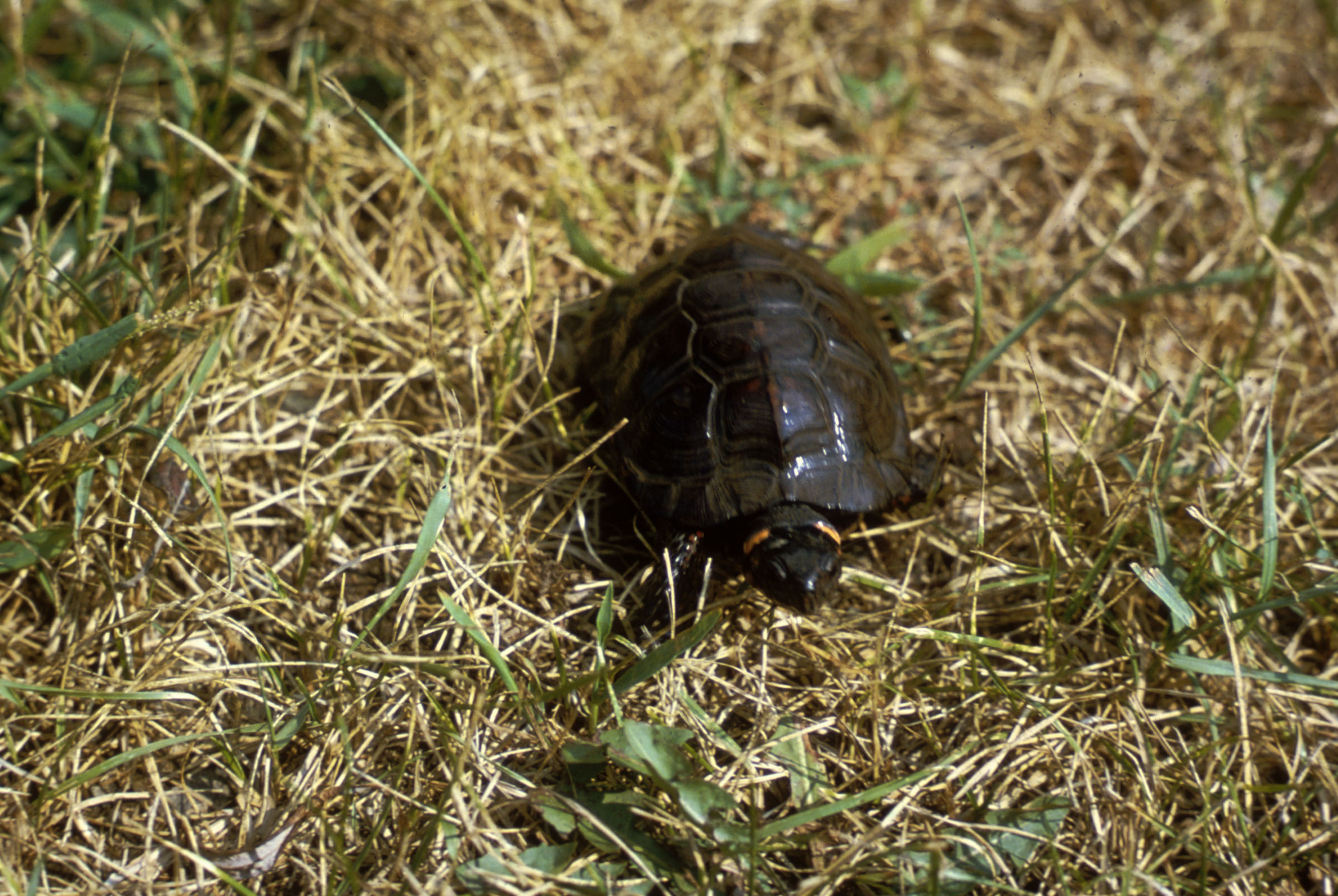 Bog turtle